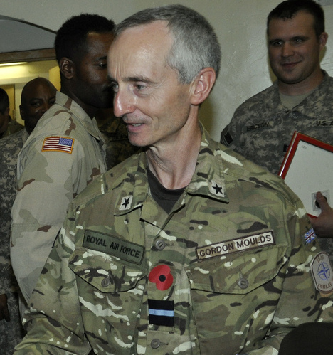 Air Commodore Gordon Moulds (right), commander of Kandahar Airfield (COMKAF)